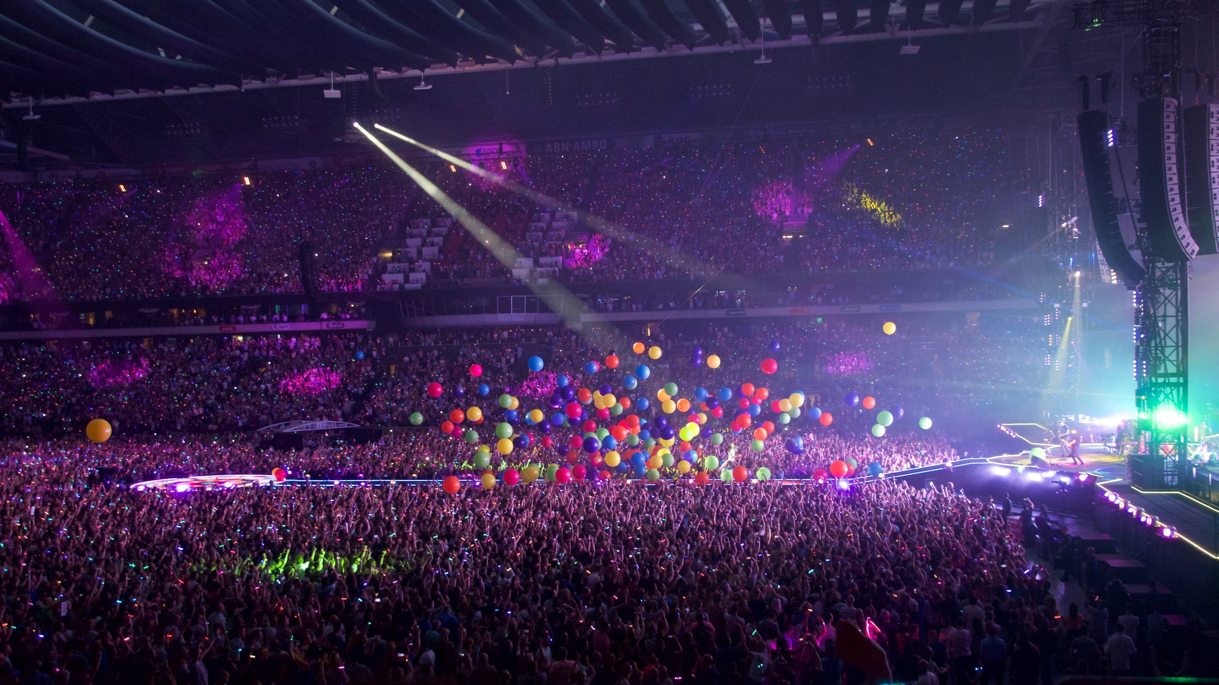 Coldplay perform at the Amsterdam Arena, during the A Head Full of Dreams Tour, 24 June 2016.